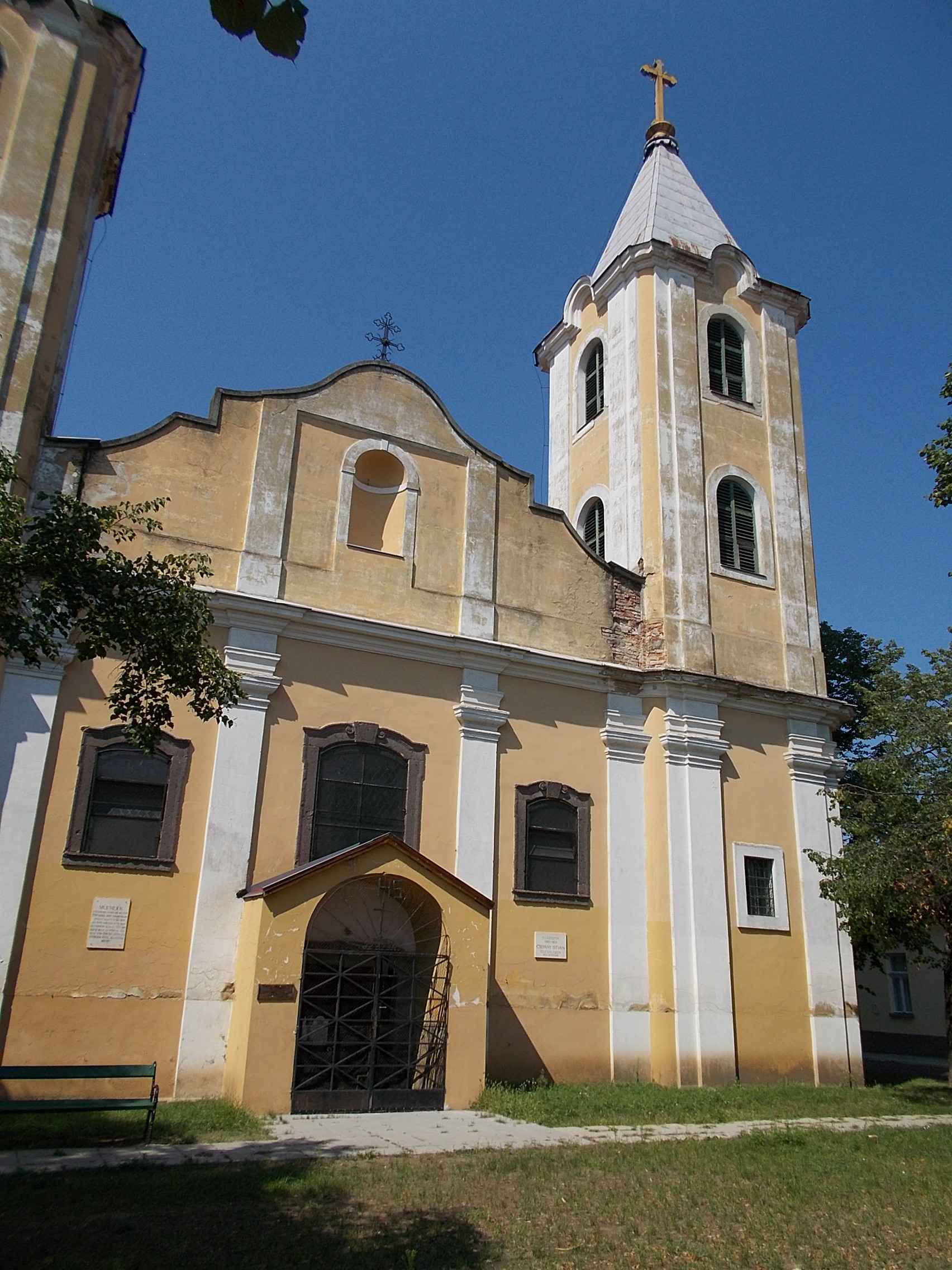 Saint Orban Roman Catholic Church. Listed ID 5668. - Eötvös Sq., Gyöngyös, Heves County, Hungary